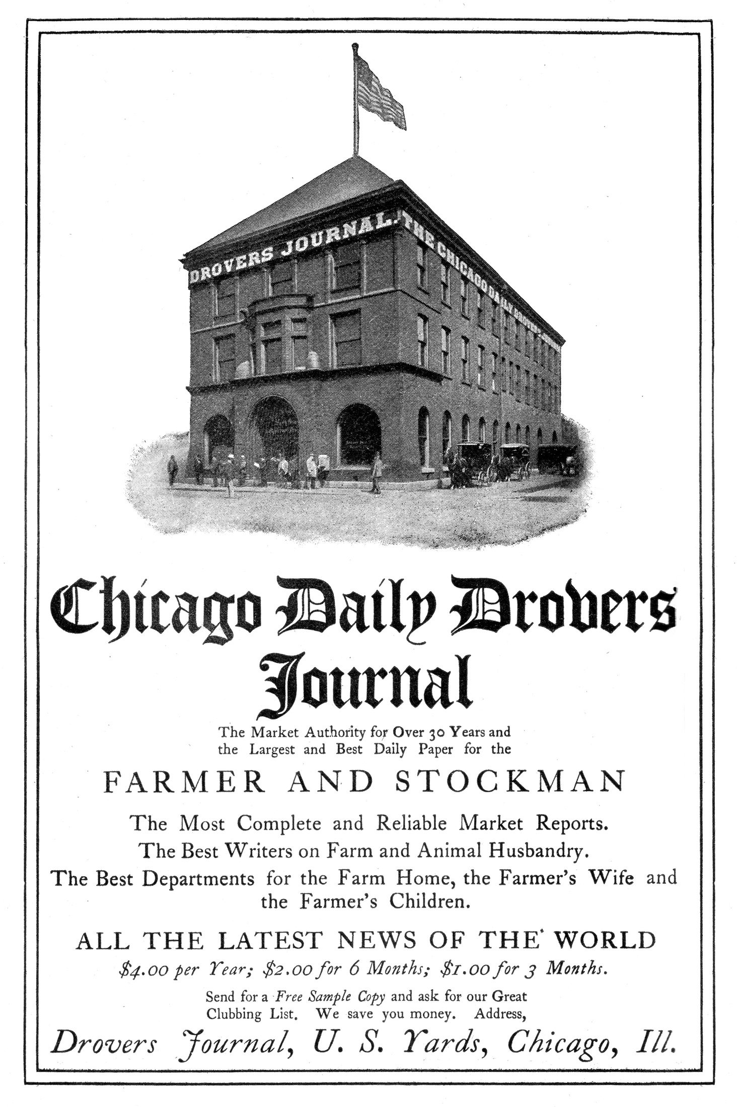 Display advertisement for the Chicago Daily Drovers Journal 1905